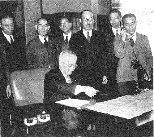 MAEDA Yonezo, the minister of railways of Japan at that time, indicates break-through blasting of service bore of Kammon railway tunnel from his office at ministry of railways, Tokyo, Japan.